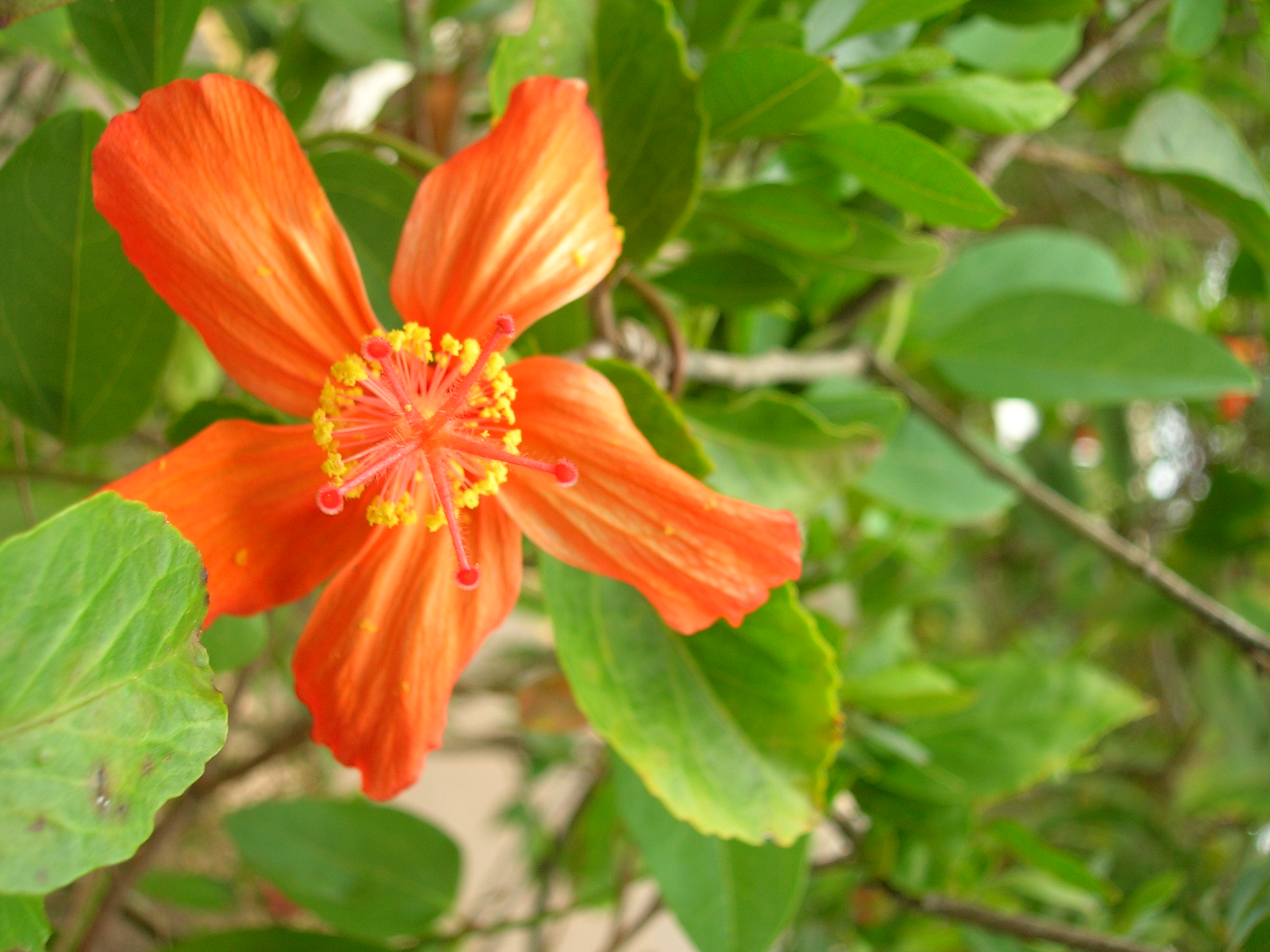 Hibiscus kokio subsp. saintjohnianus (flower). Location: Maui, Makawao